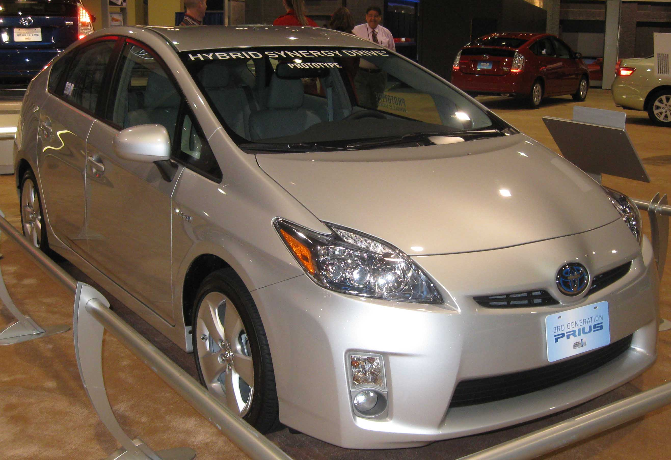 2010 Toyota Prius photographed at the 2009 Washington DC Auto Show.